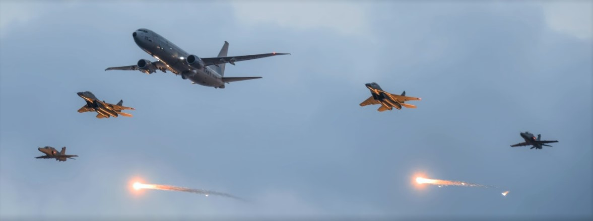 IFR 2016 FLYPAST